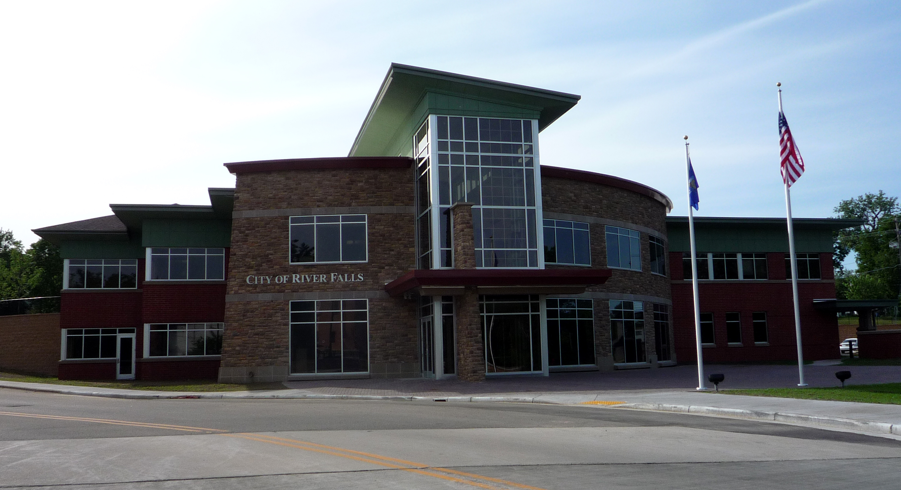 The new City Hall, opened May 1, 2009 designed by Frisbie Architects, River Falls, Wisconsin, USA.